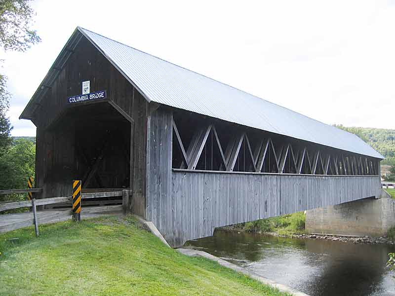 the Columbia (covered) Bridge is a Howe truss structure built in 1912 at Columbia, New Hampshire.